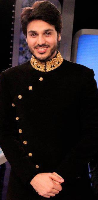 Ahsan Khan in 2011, on sets of special Ramazan transmission, Islamiz quiz show Hayya Allal Falah